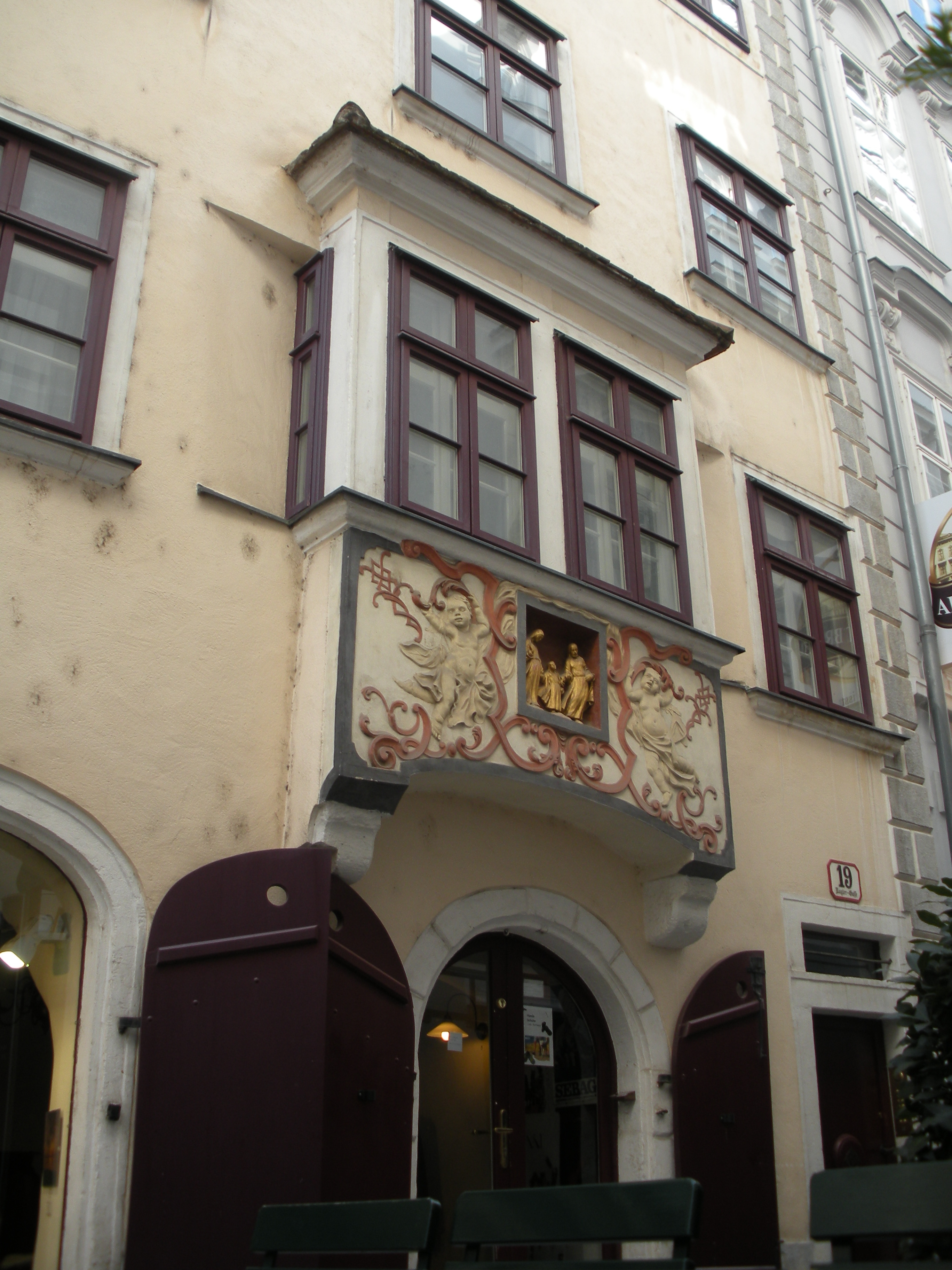 Apartmenthouse, Vienna, Naglergasse 19